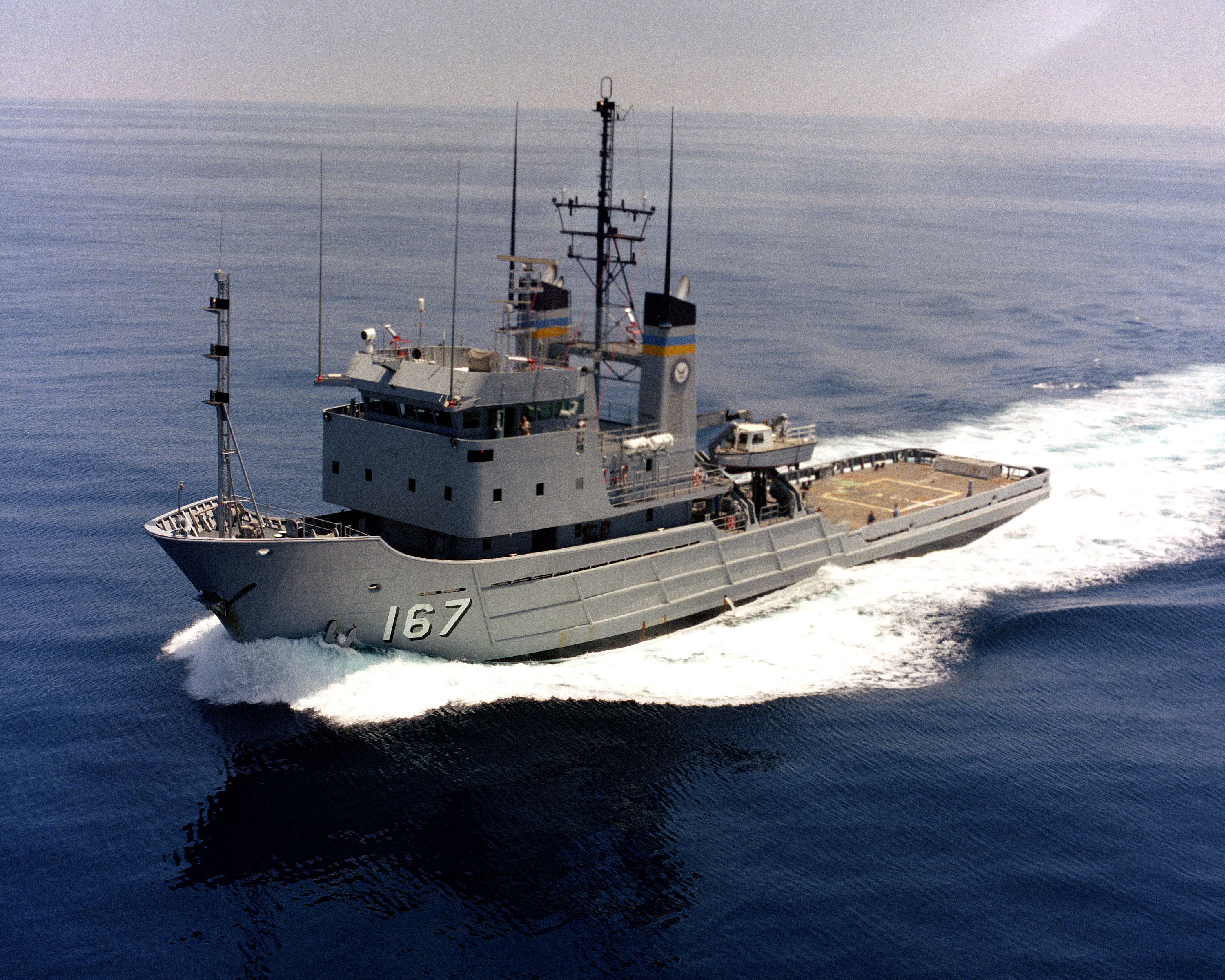 An aerial port bow view of the fleet tug USNS NARRAGANSETT (T-ATF 167) underway near San Diego.